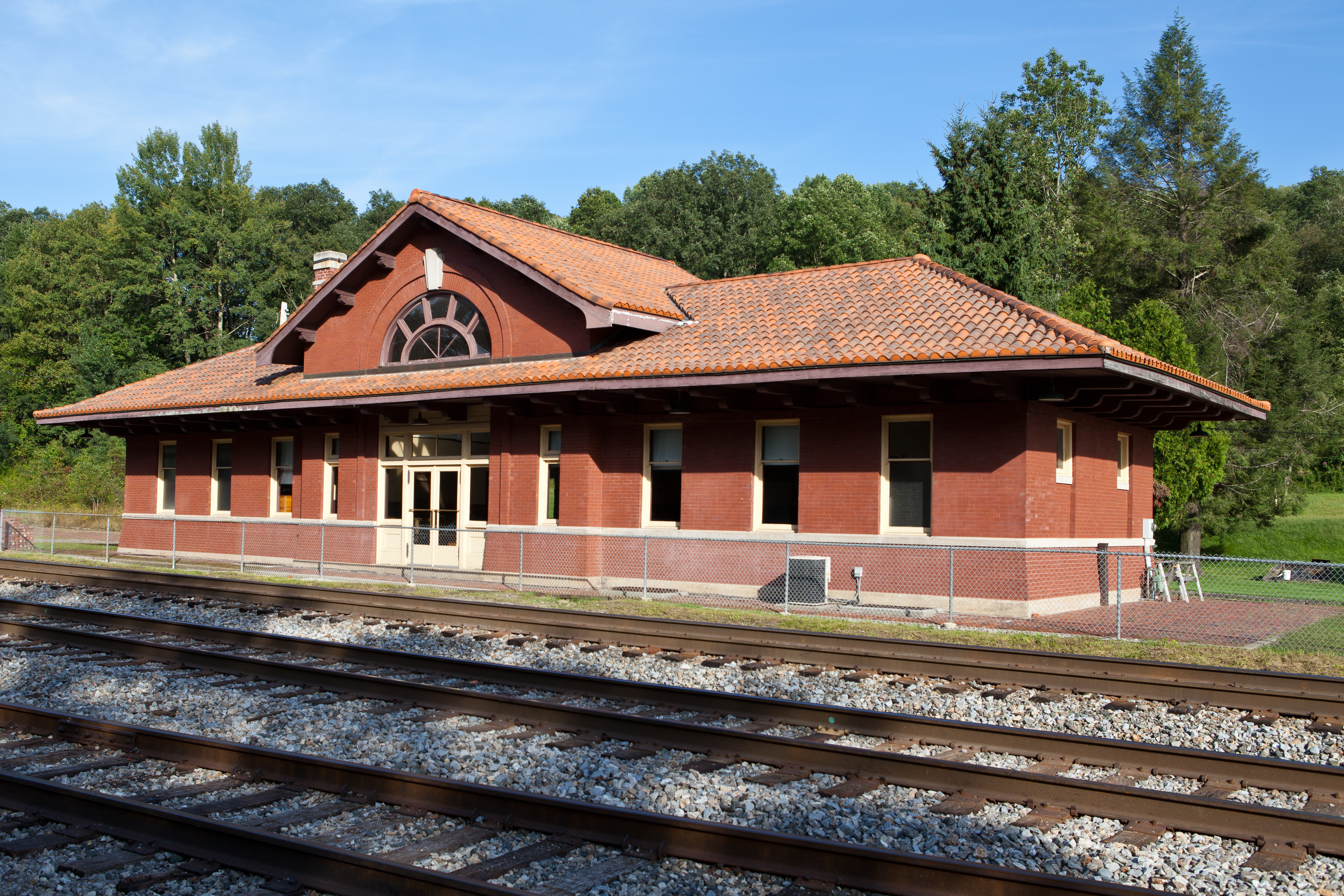 Tunnelton Railroad Depot, Boswell St., north of the junction of Boswell and South Sts. Tunnelton, West Virginia